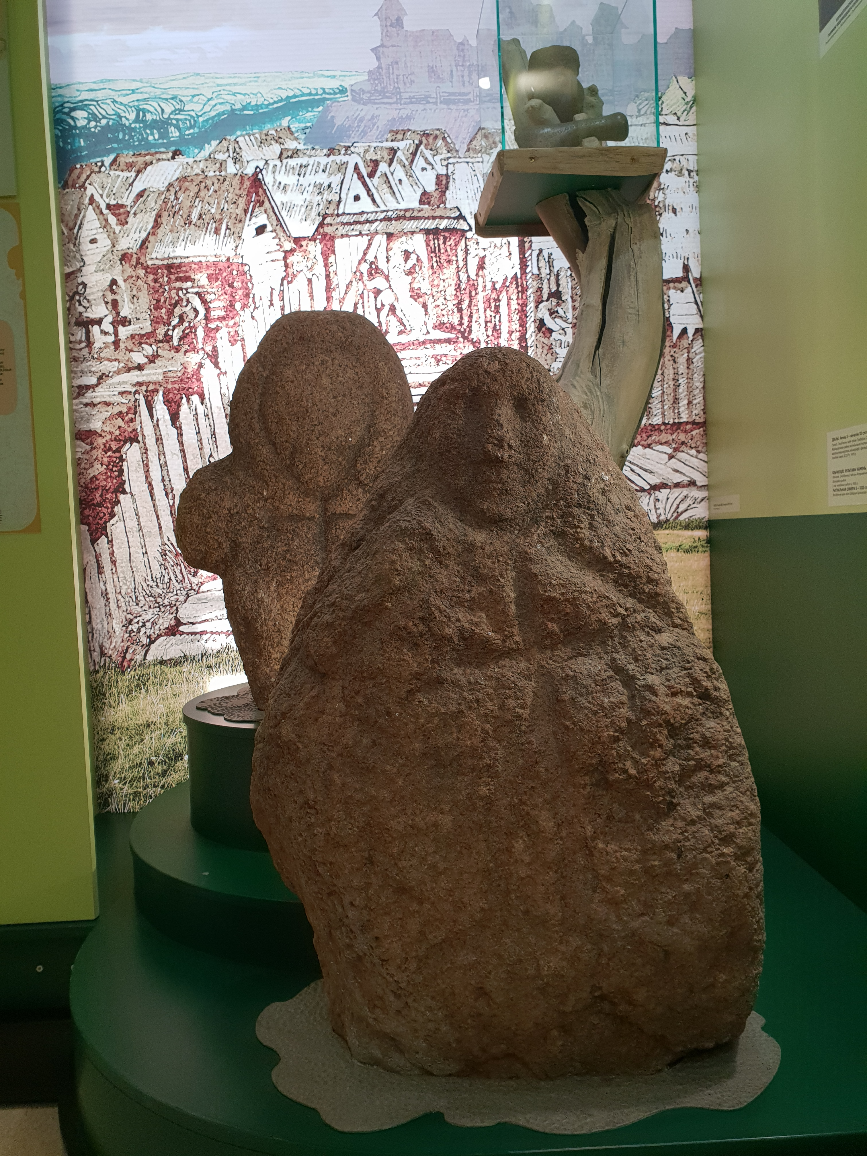 Brest Regional Homeland Museum 2019-08-23